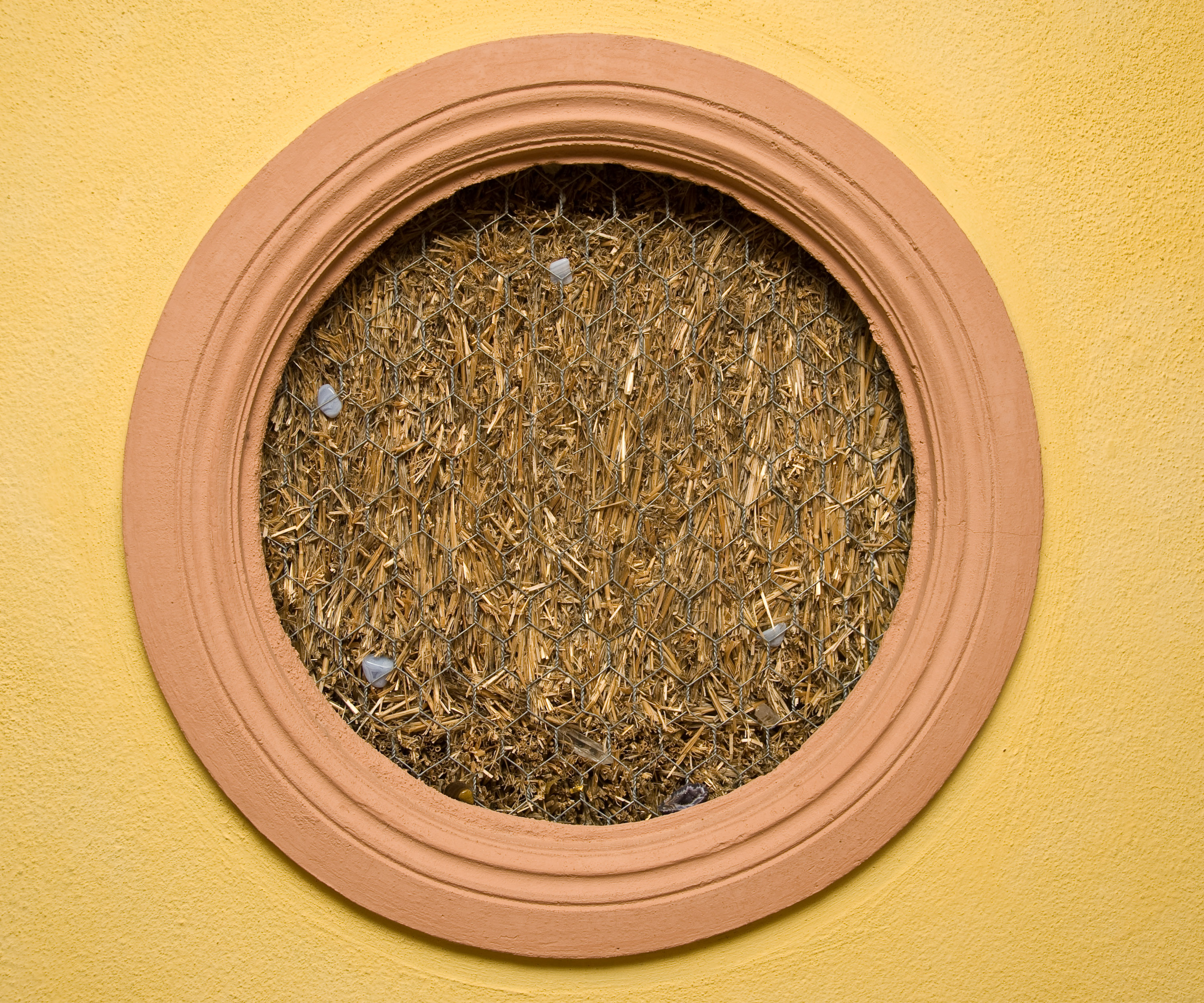 A truth window. This is an external wall (seen from the interior). The wall is strawbale coated with a sand, lime and cement render providing an insulation value of R8 (Australian). The house is designed and built by the owners, who are sustainable architects and builders. The strawbales have not been compacted. The owner/architect/builders have experience building strawbale houses and have found a covering not to be necessary for the truth window (others fear moisture will get into the walls and cause the hay to become mouldy, but the owner/architects say any moisture that goes in will come out again, and have experienced no problems with this kind of design). Muskvale, Victoria, Australia.